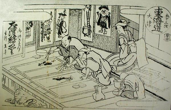 A Japanese family of artisans collaborate in producing otsu-e